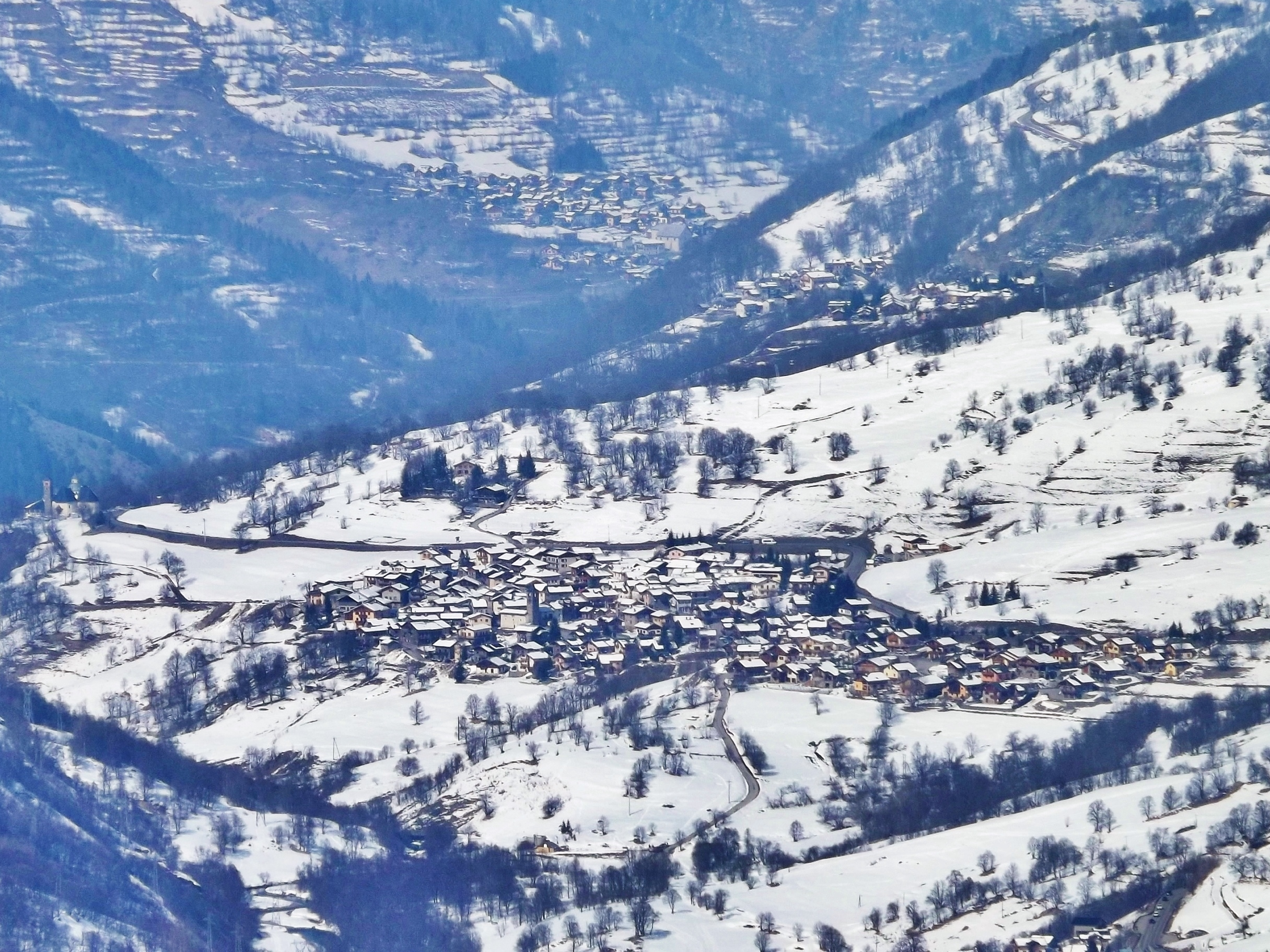 Panoramic sight, from Val Thorens ski slopes, of Saint-Martin-de-Belleville village, with visible Notre-Dame-de-la-Vie santuary on the left, in Savoie, France.